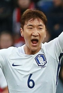 Aleksandr Kokorin, Jung Woo-young